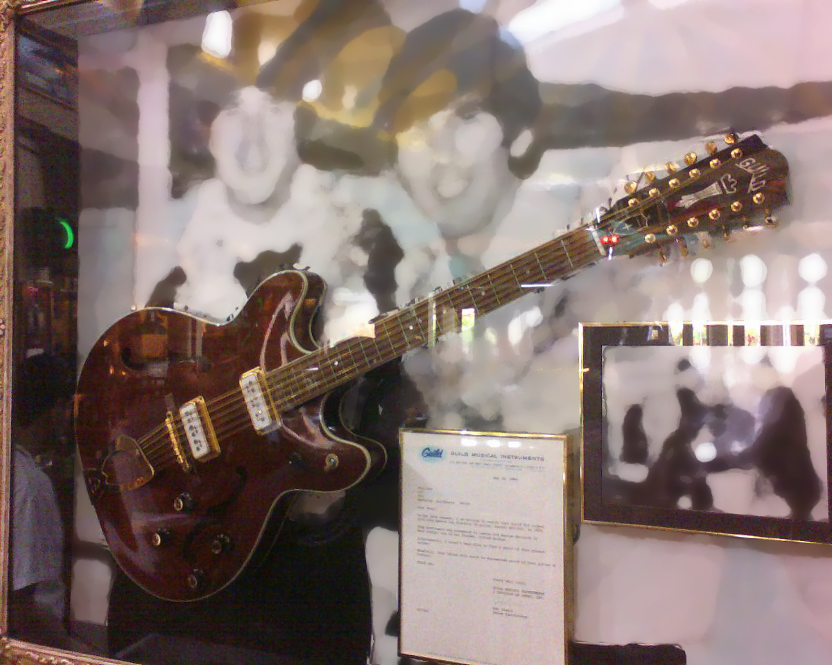 Beatles's 1966 Guild Starfire XII 12-string, HRC Honolulu One of John Lennon's guitars, with a "certificate of authenticity" from the manufacturer. Hard Rock Cafe, Honolulu, Hawaii. February 2006. Camera phone photo References hardrock (2010). The Beatles' Guild Starfire 12-string. YouTube. John F. Crowley (2000, 2012). Lennon's Guitars, Part 9.